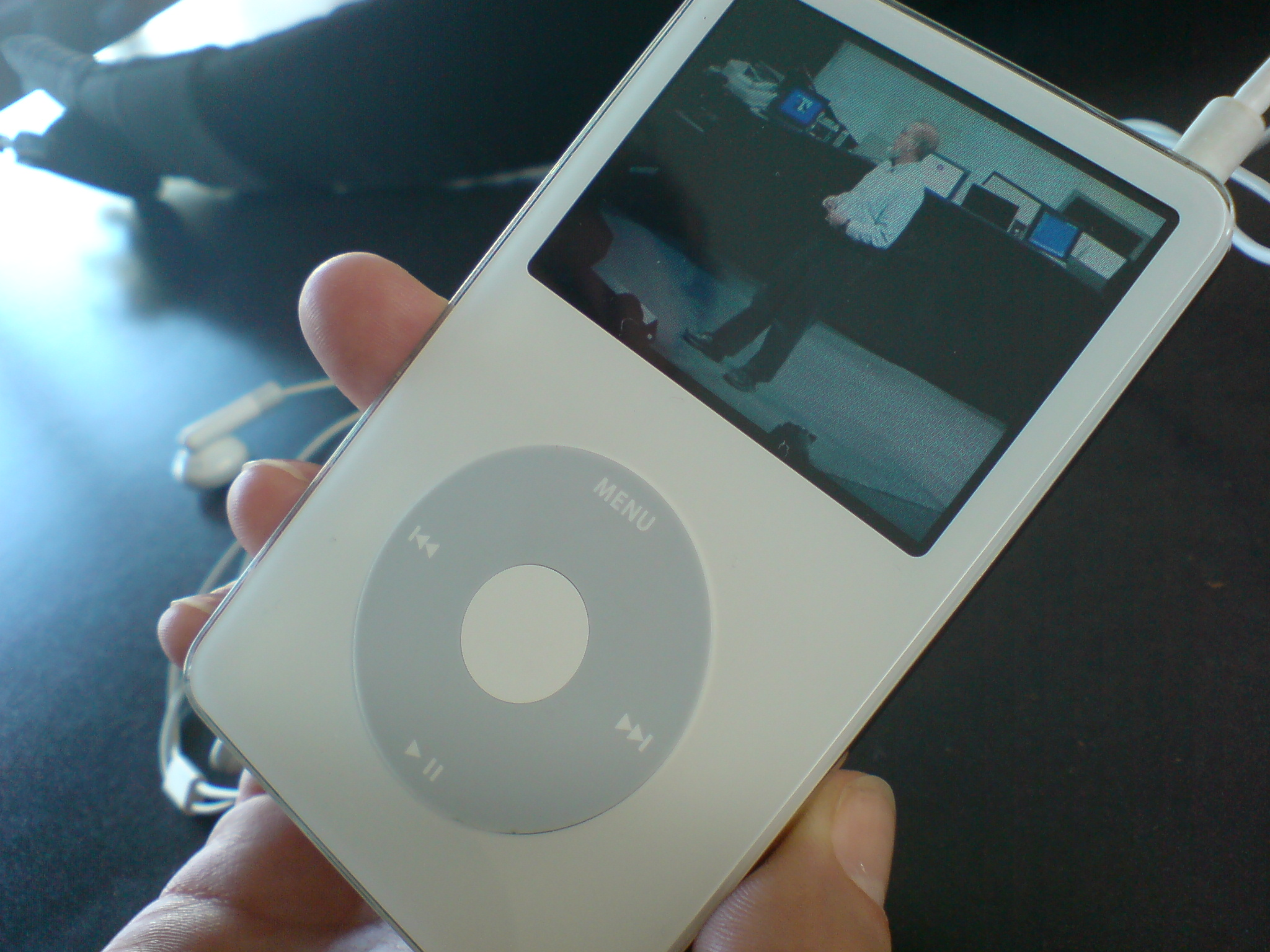 TED casts its video in many ways. You can see videos through , YouTube, and in your iPod.